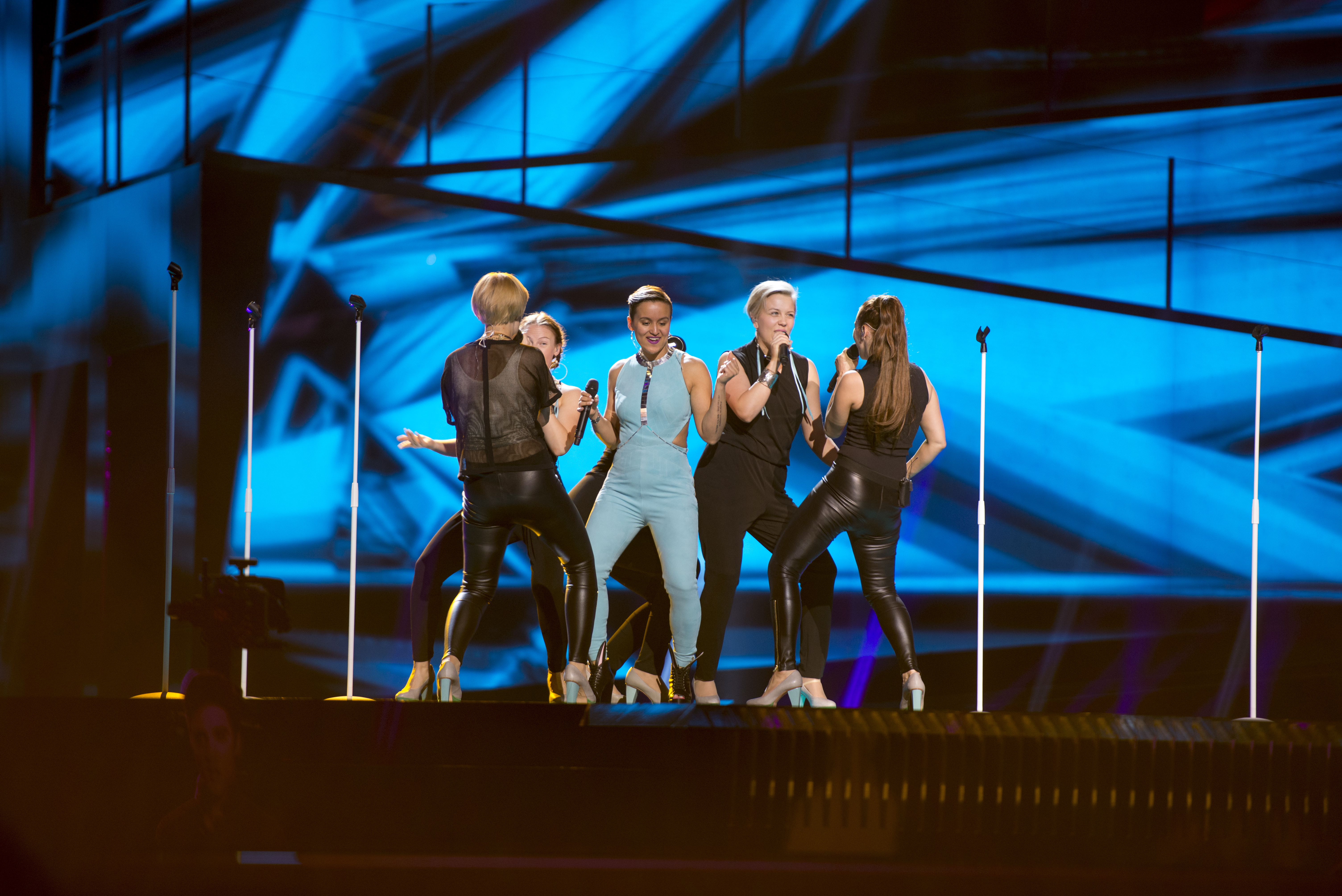 Sandhja representing Finland with the song "Sing It Away" during a rehearsal before the first semi final of the Eurovision Song Contest 2016 in Stockholm. (Help translate this text)